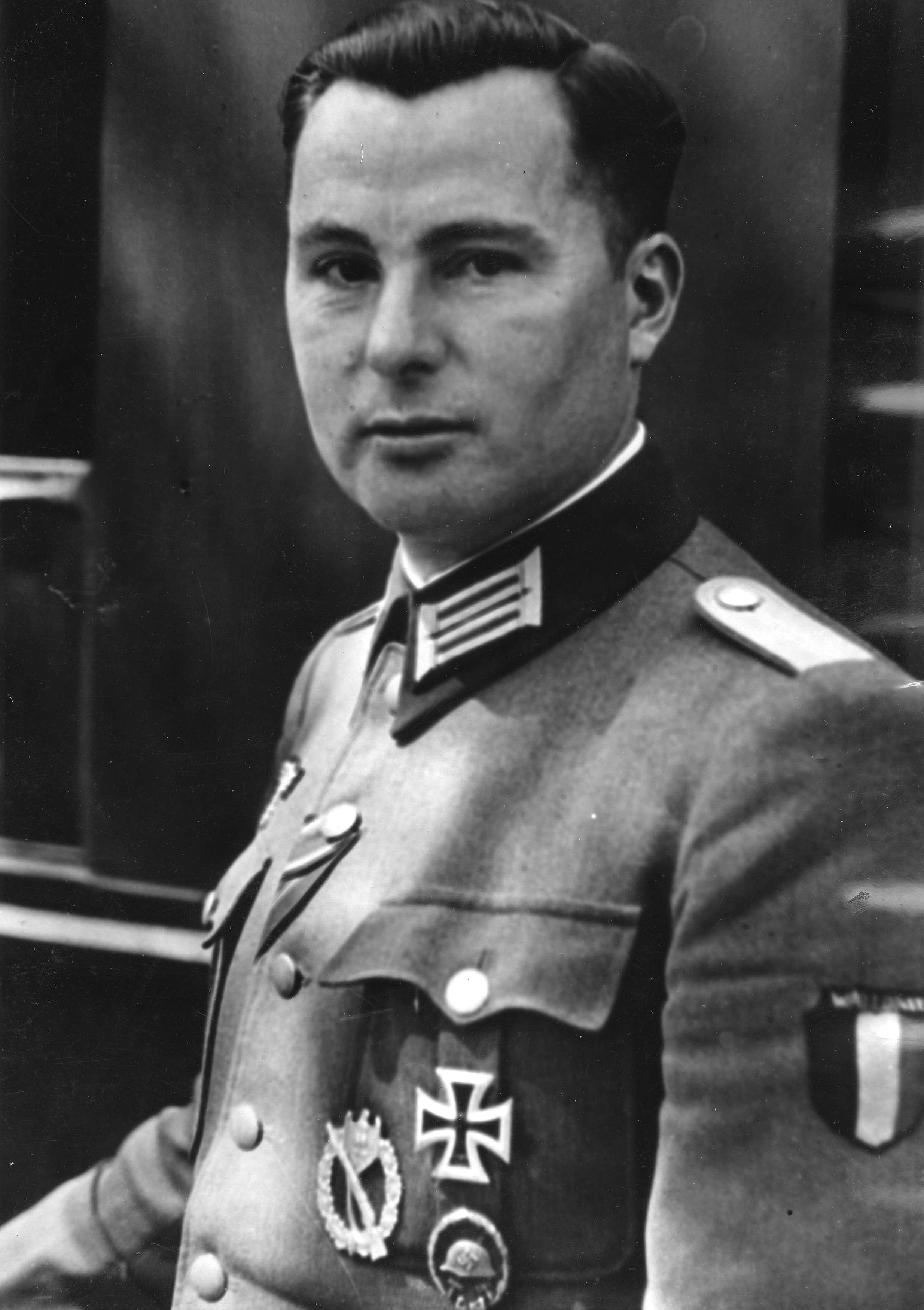 Leon Degrelle, Belgian politician, commander of the Walloon Legion. Portrait photography in uniform.